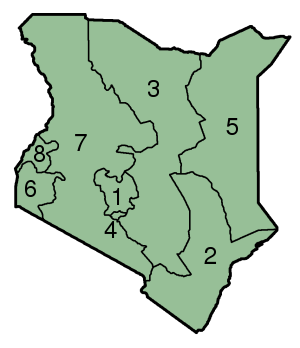 Map of the Provinces of Kenya.